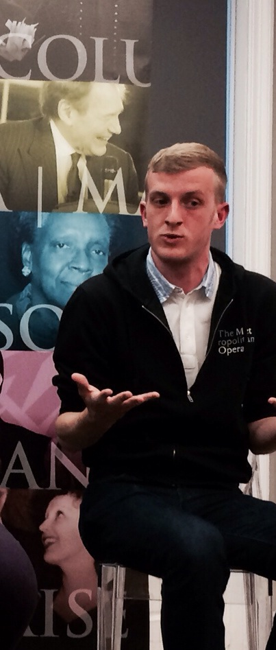 French writer Edouard Louis at a conference at Columbia University in April, 2014.